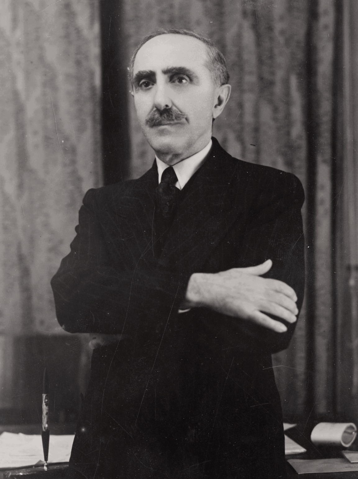 Shefqet Vërlaci in office